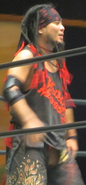 Japanese professional wrestler,"brother"YASSHI. Mar 29 2015 , BJW , Osaka Jōtō-kumin Hall.